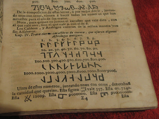 Old books about mathematics, with odd simbols